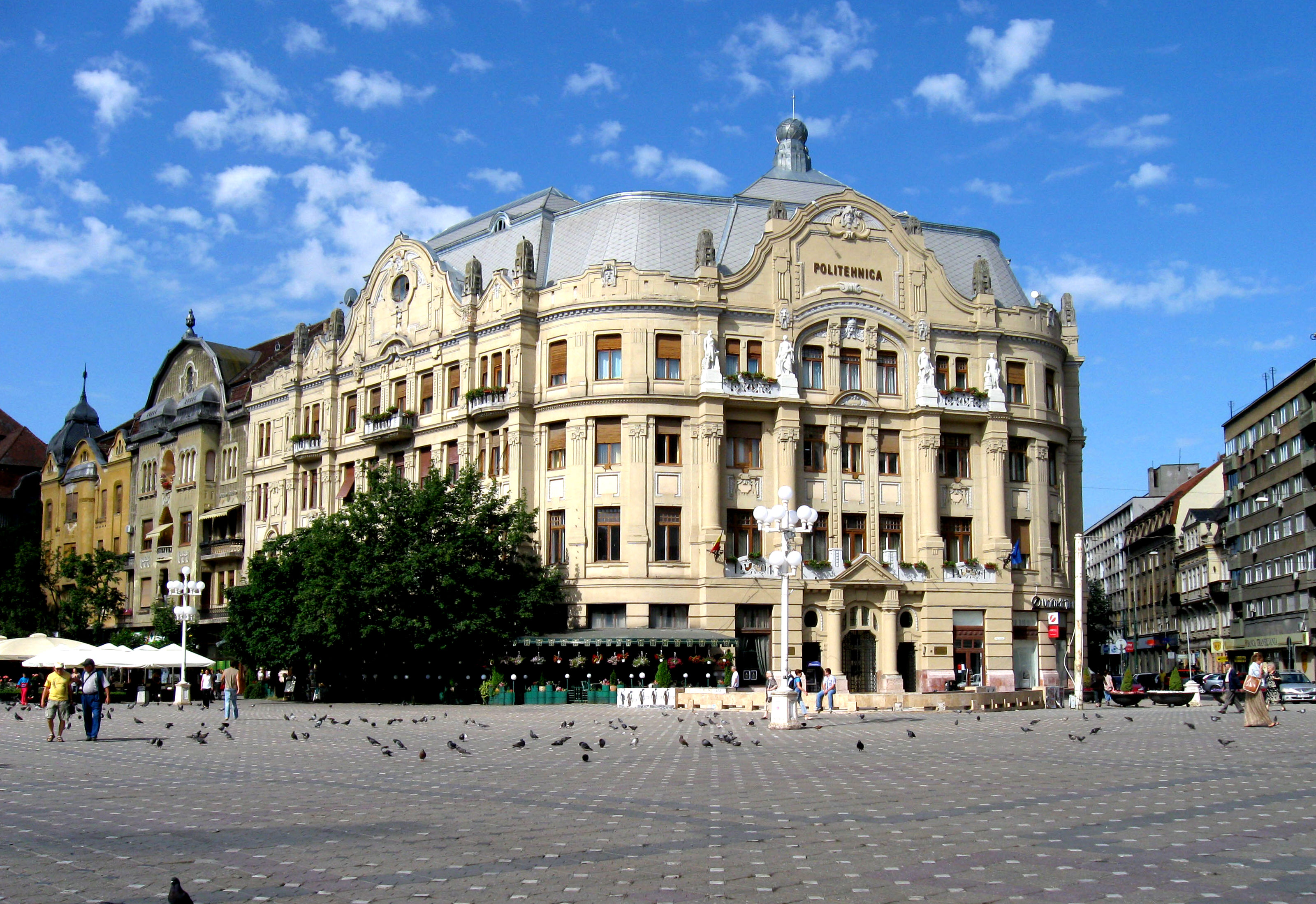 Lloyd Palace, Timisoara, Romania. Built 1910-1912, architect Lipót Baumhorn (1860-1932)